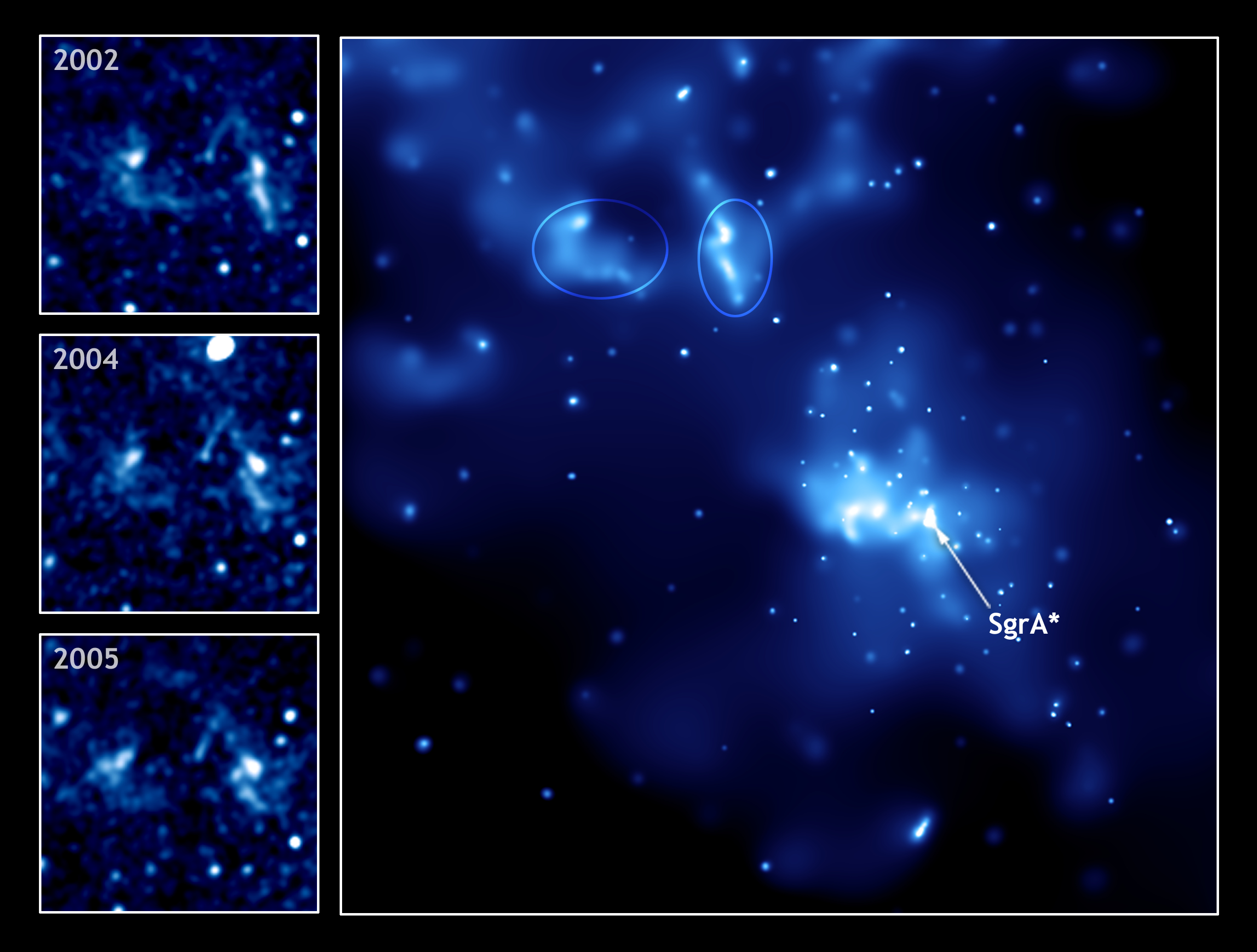 Sagittarius A*. This image was taken with NASA's Chandra X-Ray Observatory. Ellipses indicate light echoes. source